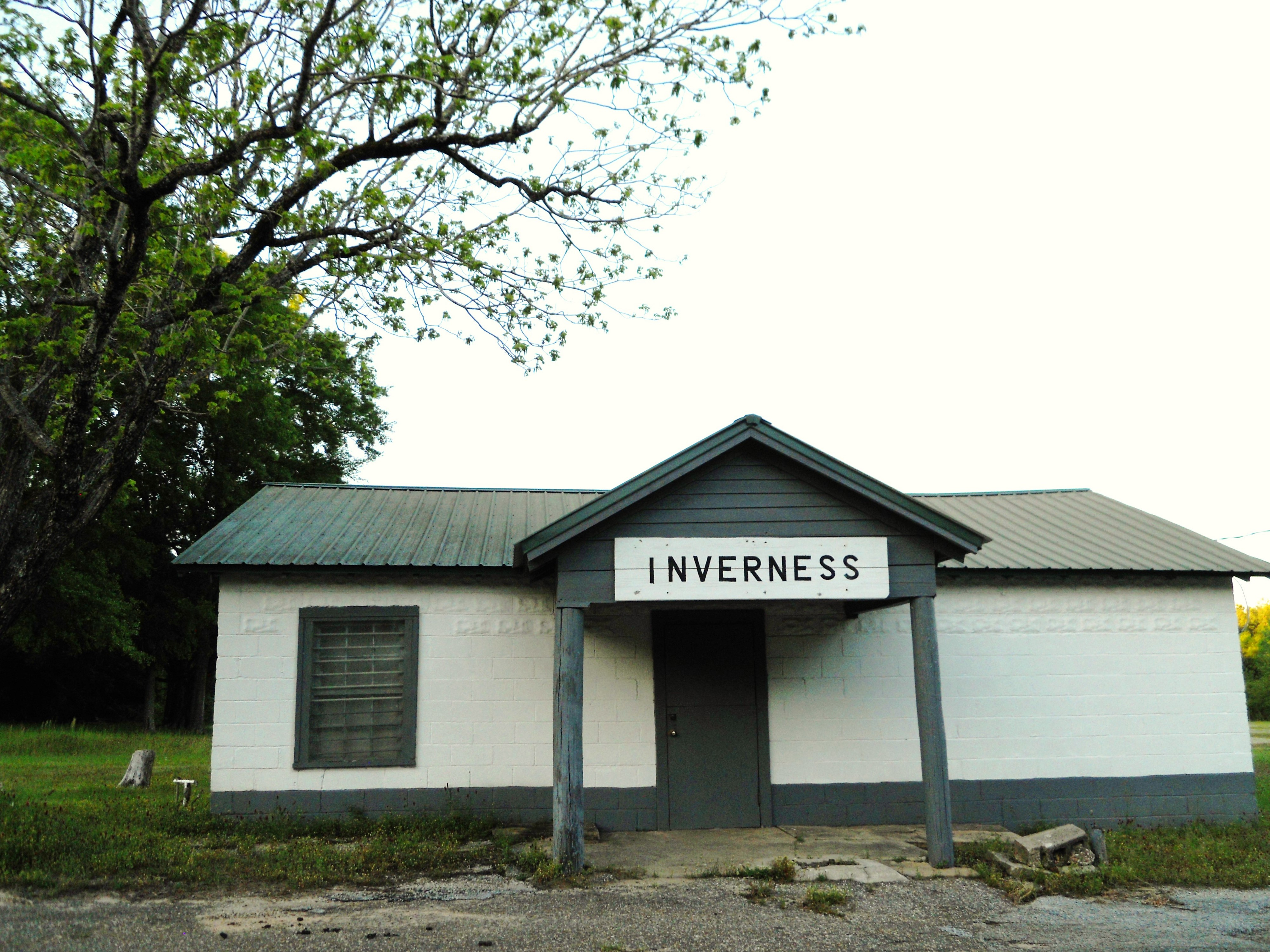 This is a photograph of Inverness, Alabama.